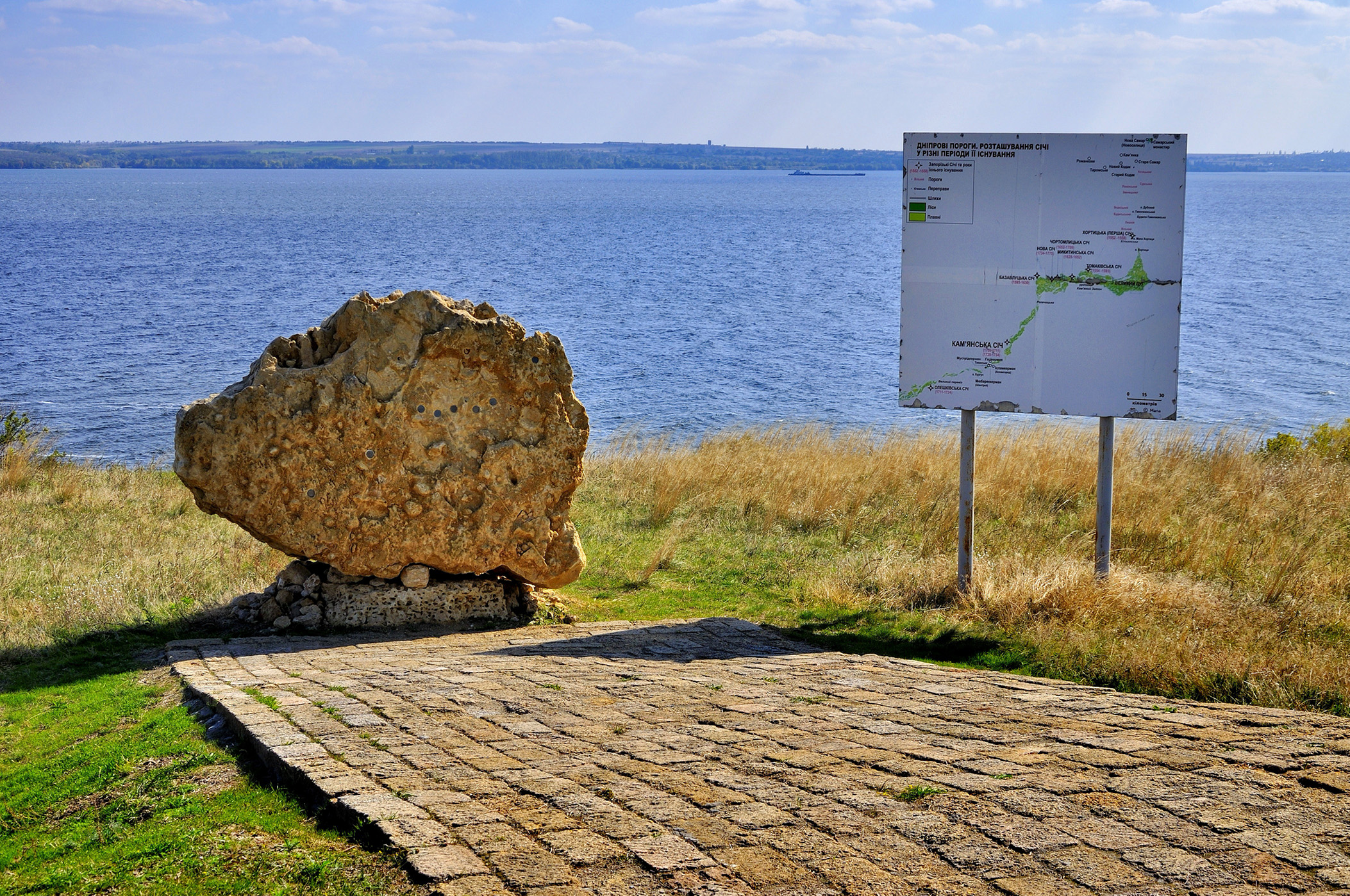 The territory of the former Kamianska Sich.